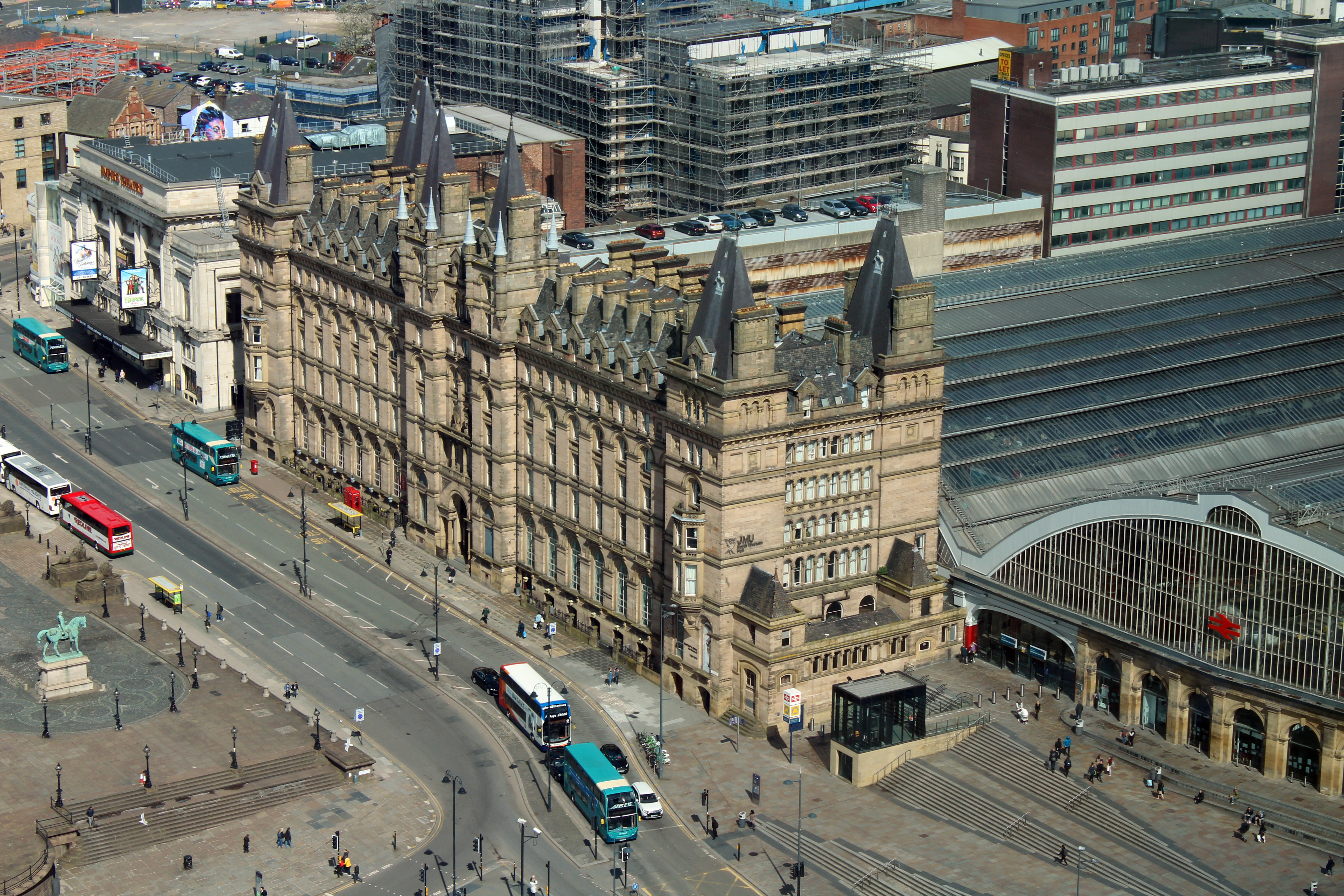 Grade Ii listed former hotel next to Lime Street station, Liverpool. Also in this image are five other Grade II listed buildings.